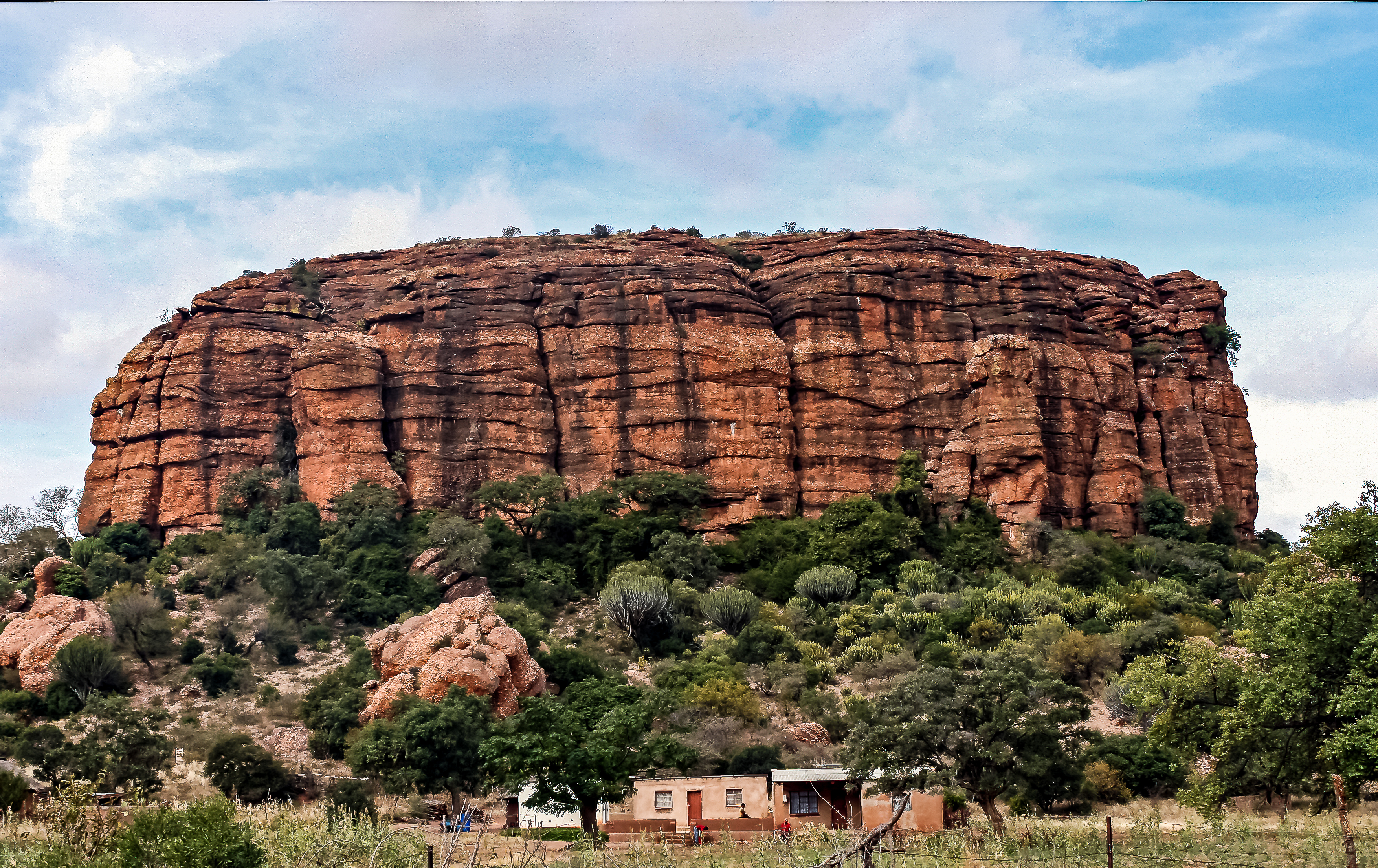 This is an image with the theme "Africa on the Move or Transport" from: South Africa